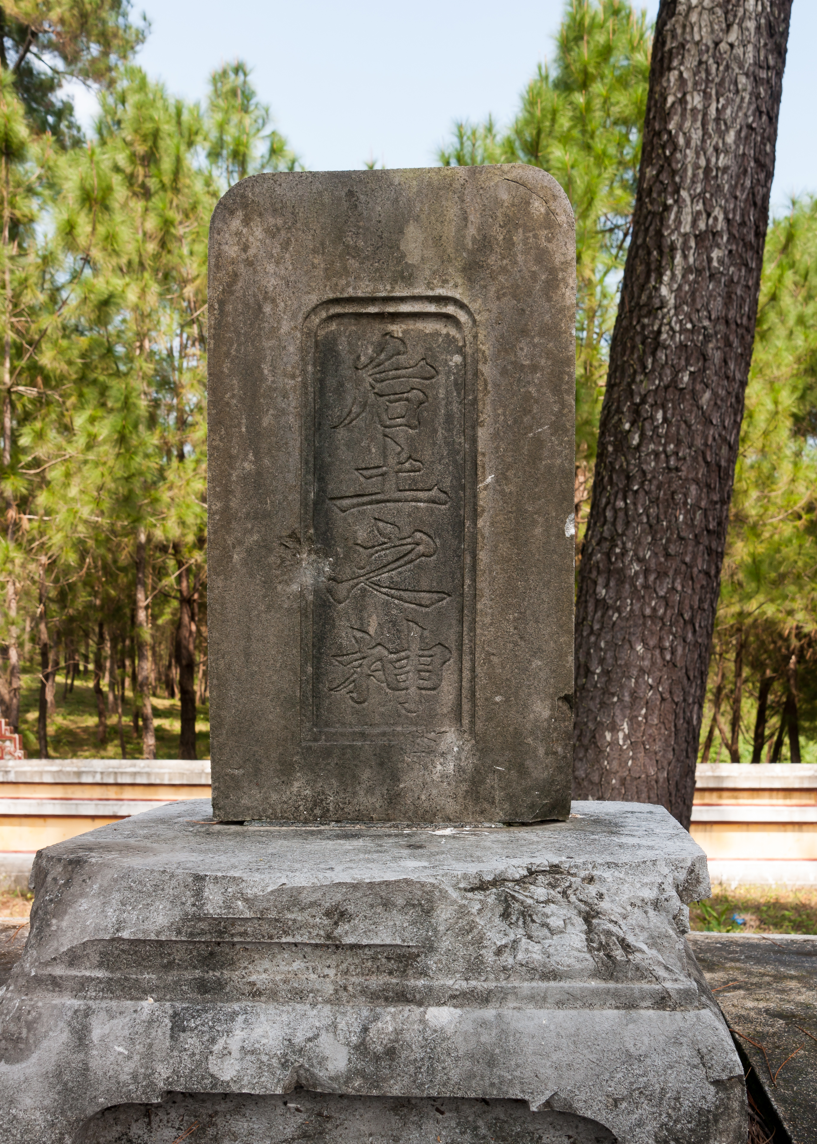 Hue, Vietnam: Stone for the deity Houtu (Chinese:后土), also Hou Tu or Hou T'u at the pavillon on the burial site of Emperor Gia Long